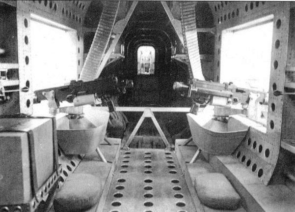 The beam gun positions of a FIAT RS.14.